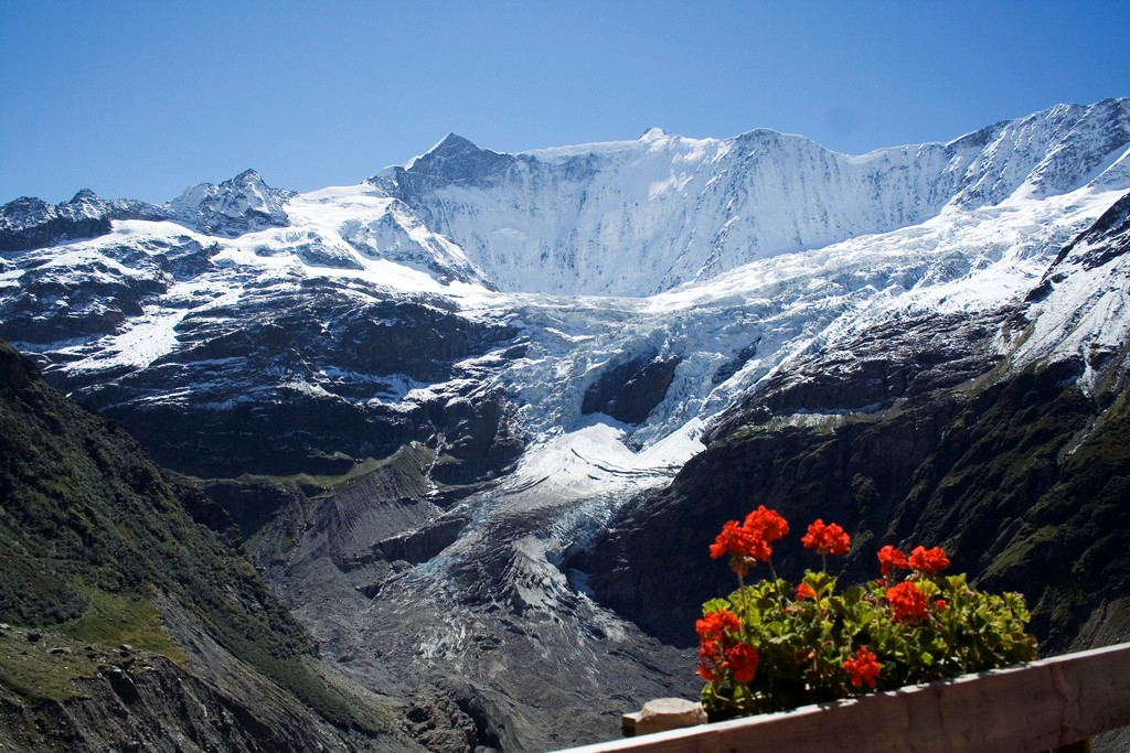 Fiescherhorn, from Bäregg